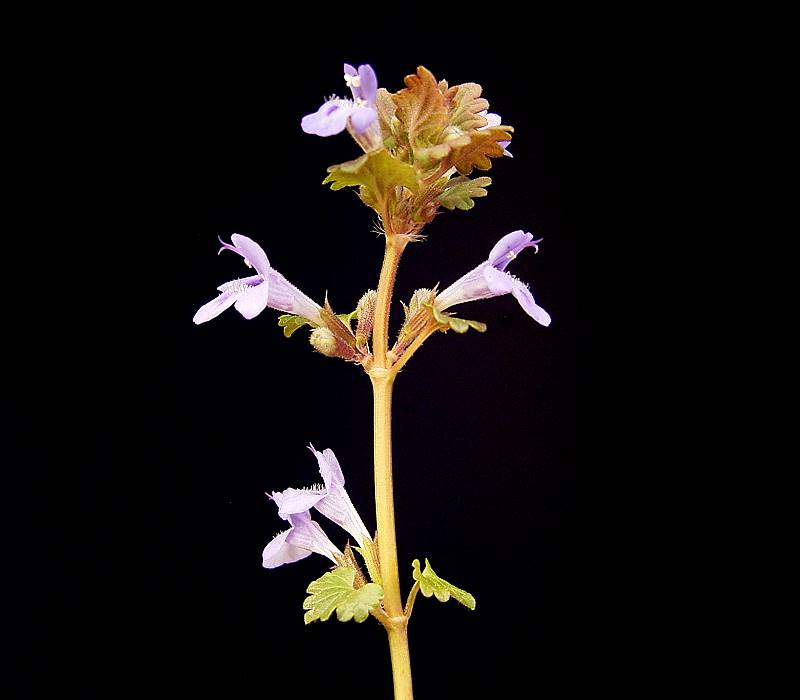 Glechoma hederacea